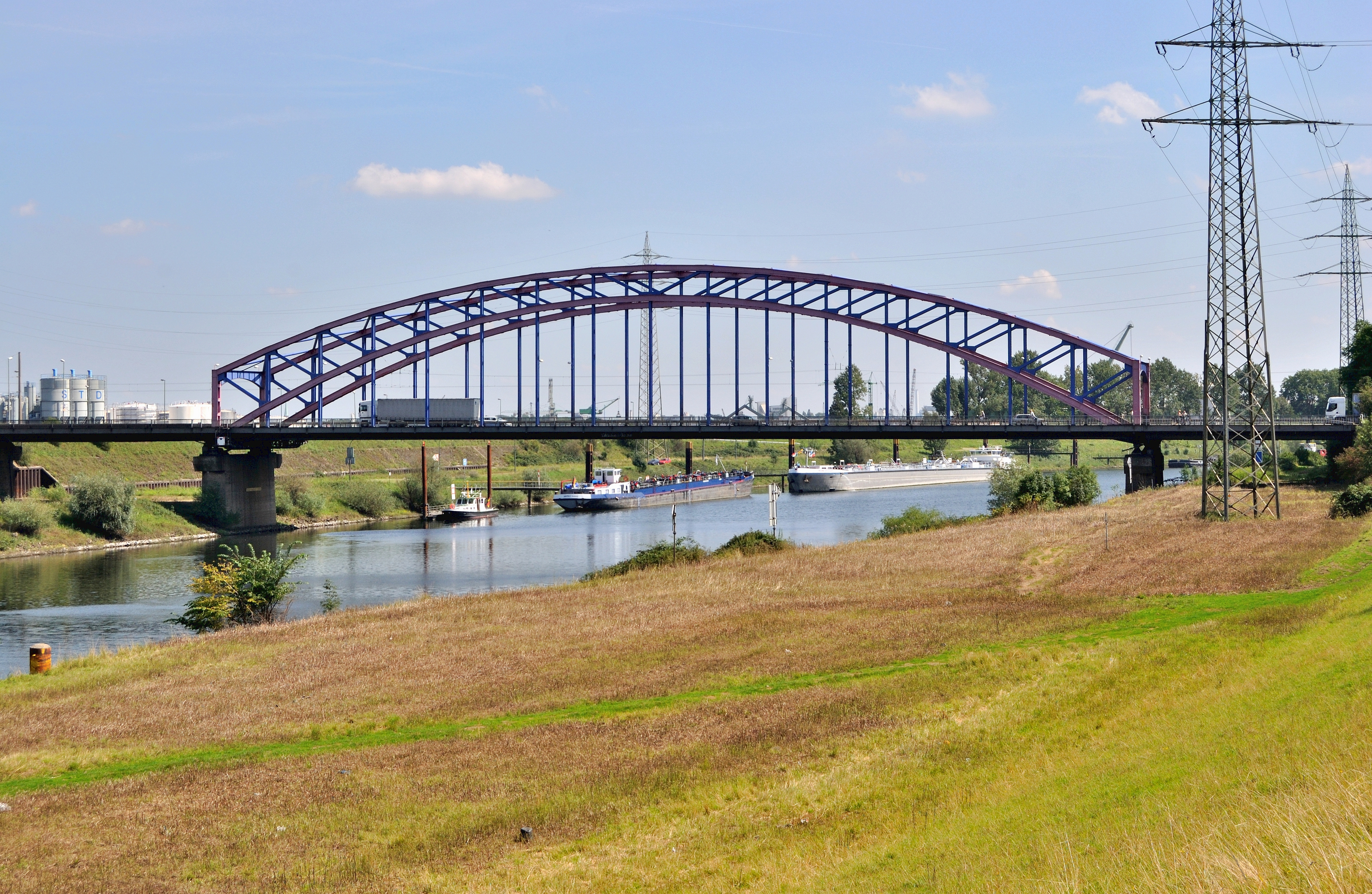 Duisburg (North Rhine-Westphalia, Germany) – Lord Mayor Lehr Bridge («Oberbürgermeister-Lehr-Brücke») This photograph was taken with a Nikon D3000.